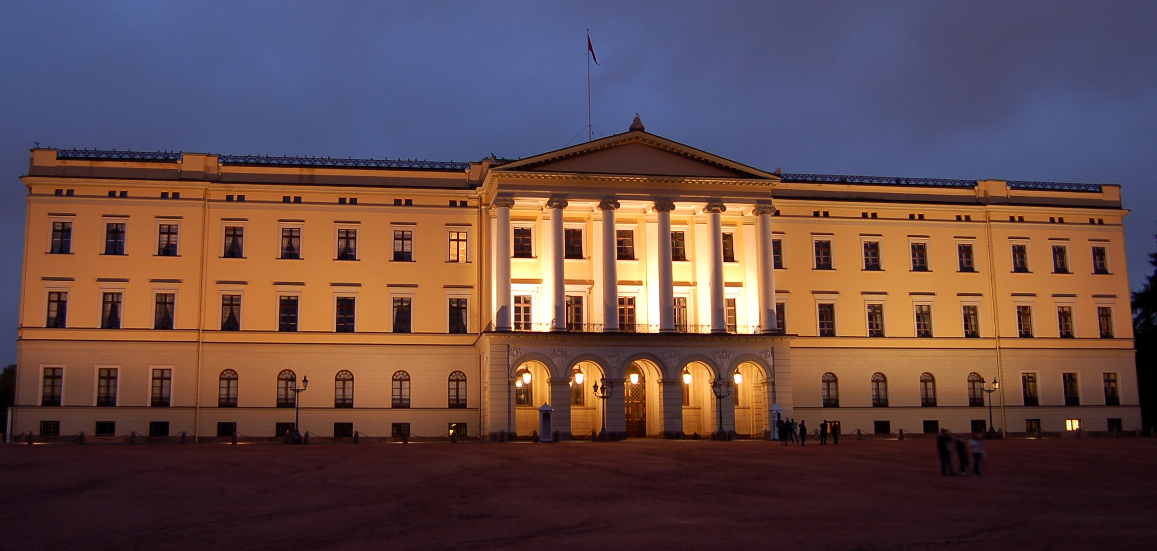 The royal palace in Oslo, Norway, by night